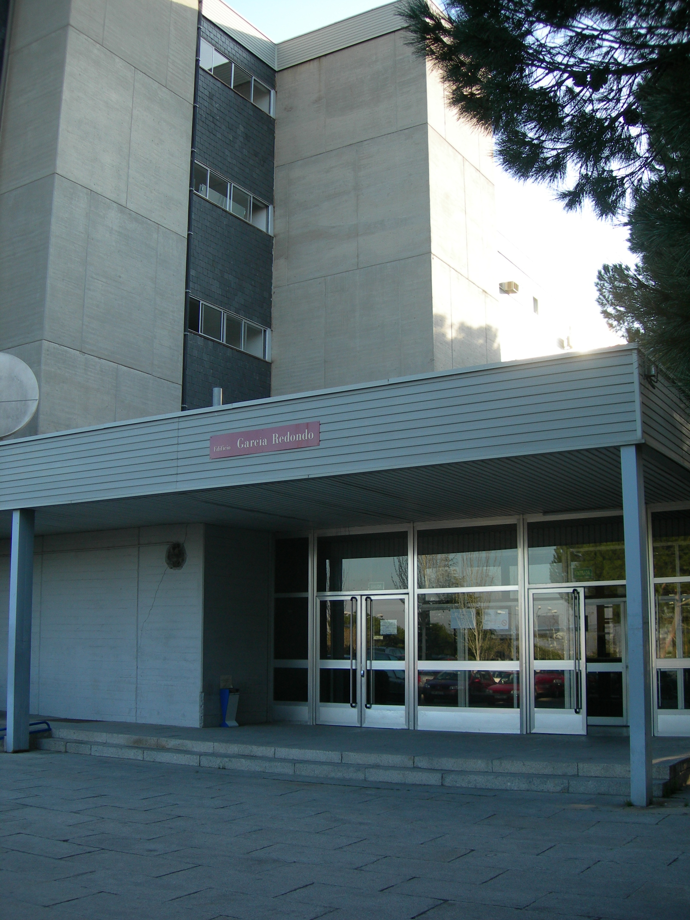 Telecommunication Engineering School (ETSIT), Technical University of Madrid (UPM), Spain. "García Redondo" building, formerly known as "Block B".